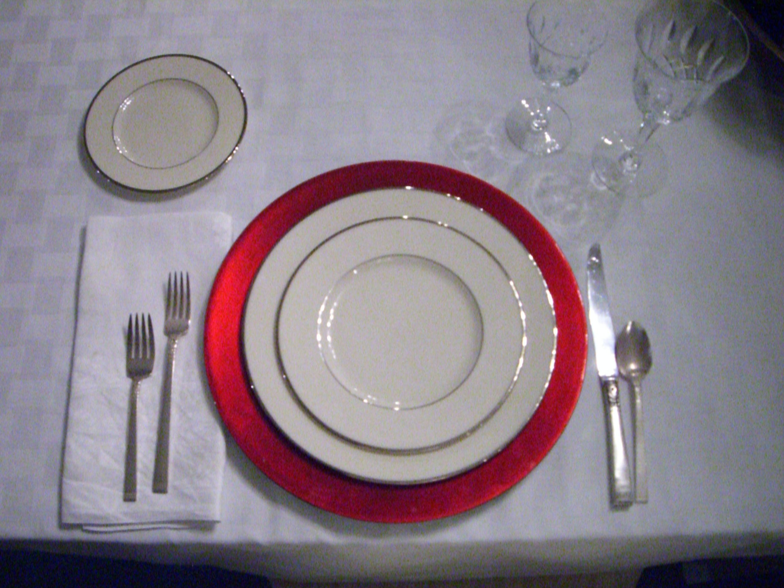 Place setting with red charger.